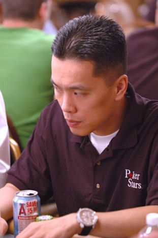 Nam Le in 2006 World Series of Poker - Rio Las Vegas.